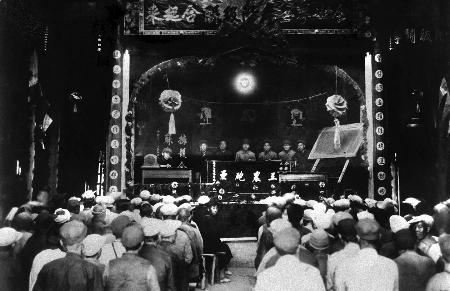 On 7 Nov 1931 the Chinese soviet was formally established, group photo was taken, including Mao Zedong, Zhu De, etc.